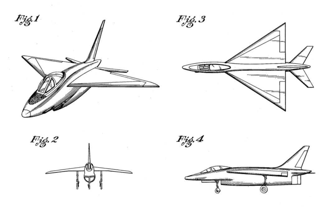 Patent #180.297, awarded May 14, 1957 to Northrop Aircraft for the design of the N-102 "Fang" lightweight fighter.